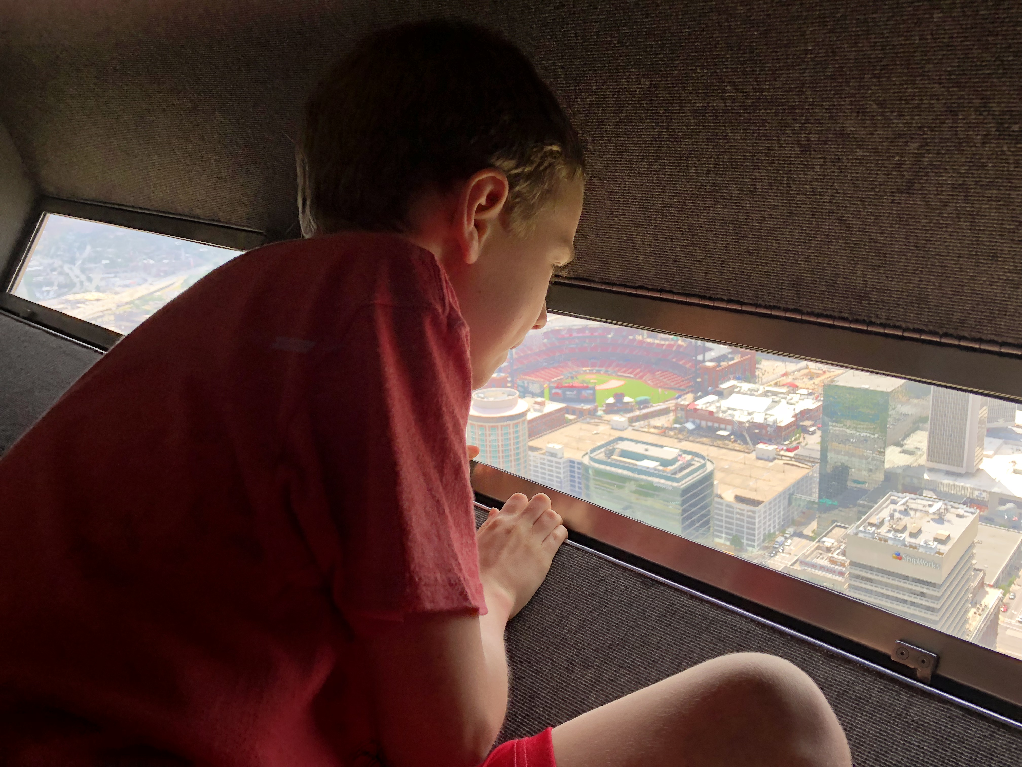 A young boy is looking out one of the observation windows at the city of St. Louis, Missouri from the observation room in the St. Louis Arch.